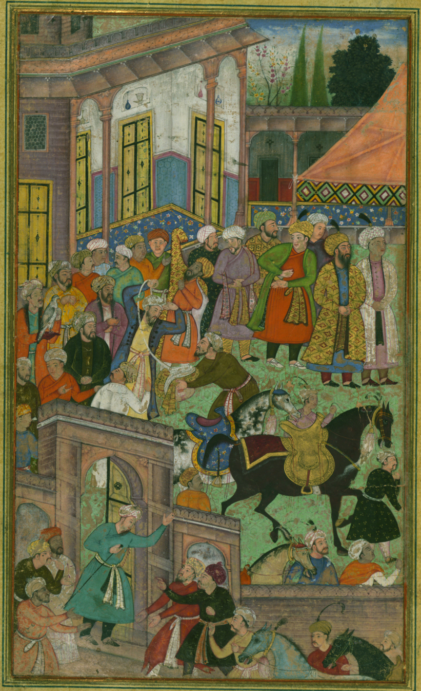 Illustrations from the Manuscript of Baburnama (Memoirs of Babur) - Late 16th Century Bāburnāma is the memoirs of Ẓahīr ud-Dīn Muḥammad Bābur (1483-1530), founder of the Mughal Empire and a great-great-great-grandson of Timur. It is an autobiographical work, originally written in the Chagatai language, known to Babur as "Turki" (meaning Turkic), the spoken language of the Andijan-Timurids. Because of Babur's cultural origin, his prose is highly Persianized in its sentence structure, morphology, and vocabulary,and also contains many phrases and smaller poems in Persian. During Emperor Akbar's reign, the work was completely translated to Persian by a Mughal courtier, Abdul Rahīm, in AH (Hijri) 998 (1589-90). These Paintings, being a fragment of a dispersed copy, was executed most probably in the late 10th AH /16th CE century. It contains 30 mostly full-page miniatures in fine Mughal style by at least two different artists. Another major fragment of this work (57 folios) is in the State Museum of Eastern Cultures, Moscow.